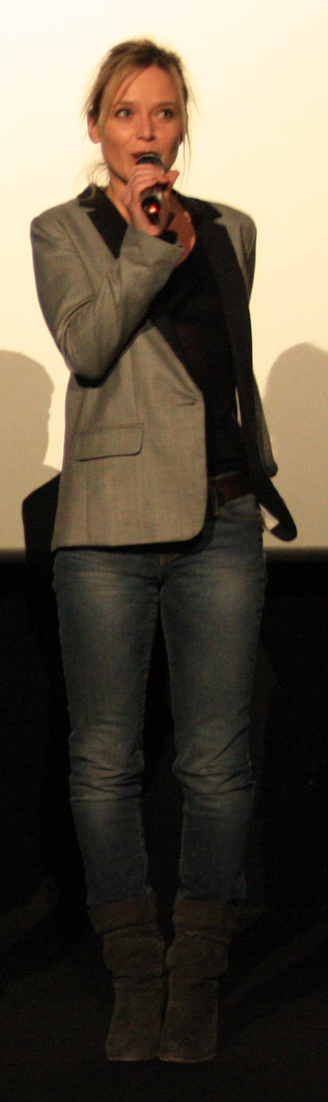 Marie Guillard at the premiere of the french movie L'Assaut with the crew of the movie in Montigny-le-Bretonneux, France